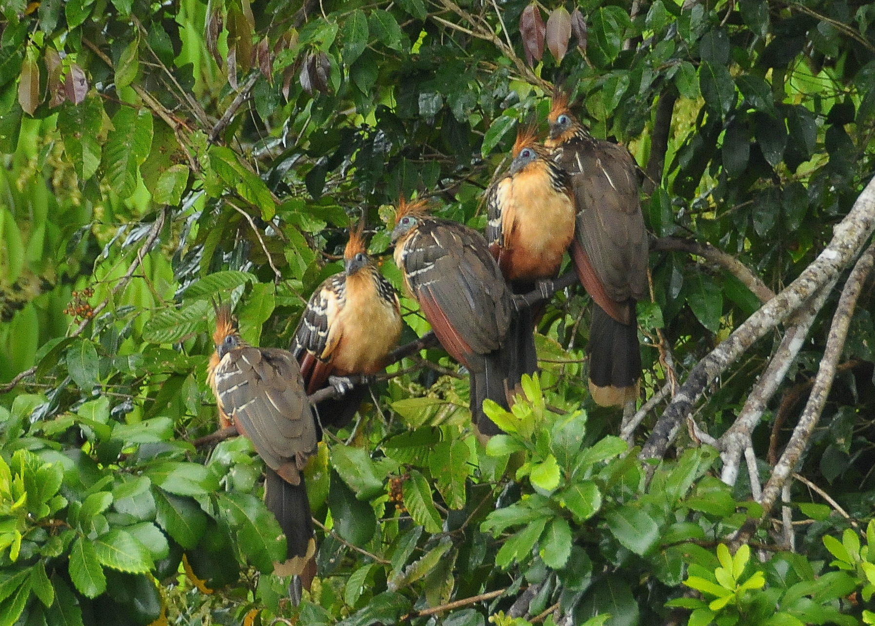 Hoatzin on oxbow lake near Refugio Amazonas, Madre de Dios Region, Peru.